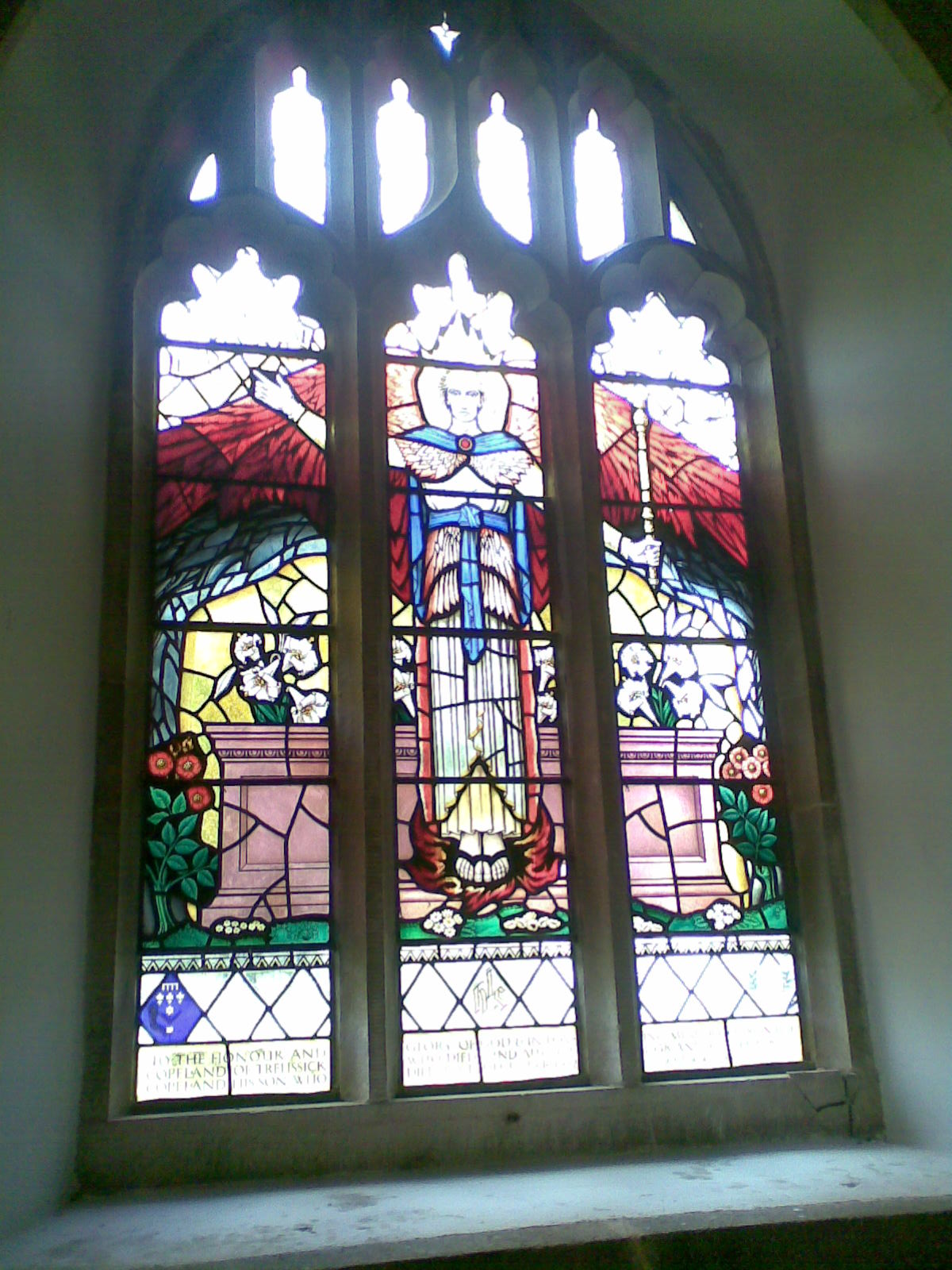 Window representing the Risen Christ, at Feock Church, Cornwall